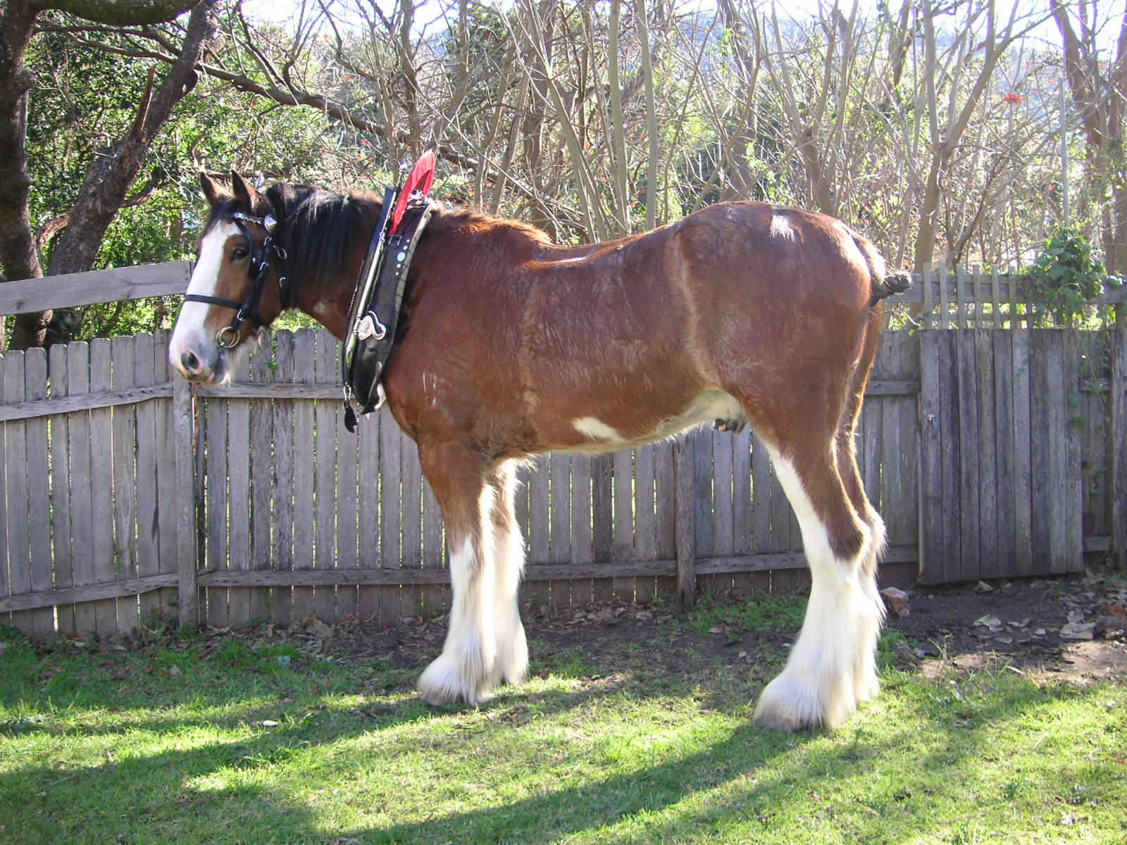 Young Australian Clydesdale horse source- own photo, TTaylor 2006